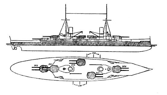 Line drawing of the German Kaiser class battleships